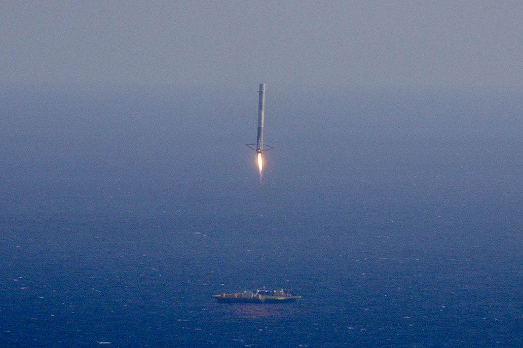 Falcon 9 first stage attempts landing on autonomous spaceport drone ship Just Read the Instructions after launch of CRS-6 Dragon.